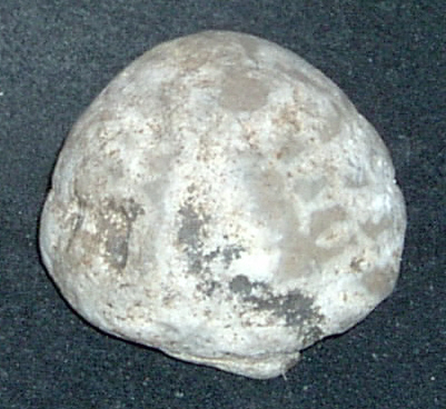 Fossil see urchin, width ~2cm